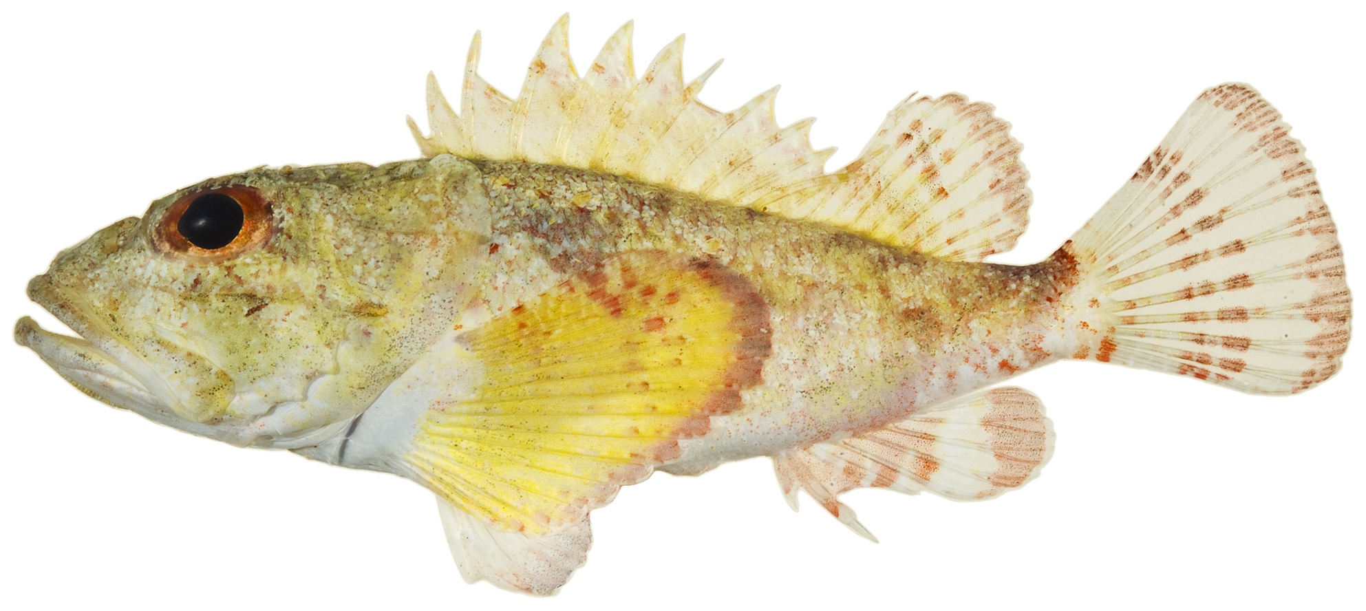 Scorpaena inermis Cuvier, 1829 —mushroom scorpionfish, 65.9 mm SL, yellow morph. Photo by JT Williams.